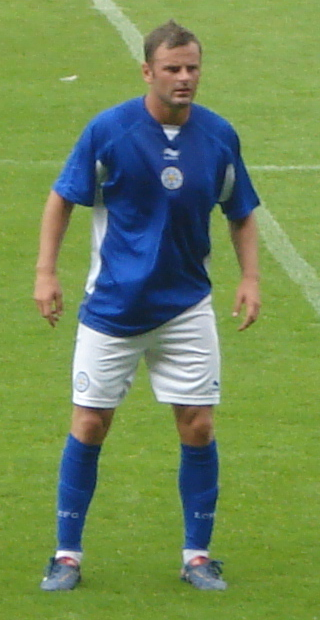 Wellens - Leicester City vs. Oxford United (Image cropped from original at Flickr)